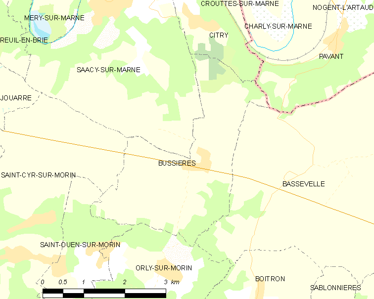 Map of French municipality Bussières